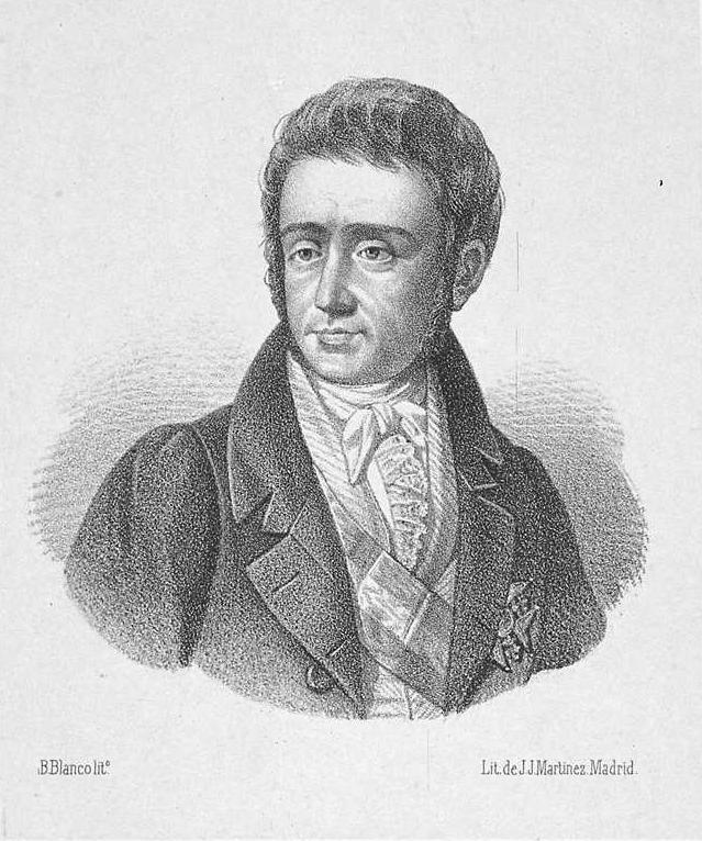 Lithography of Narciso de Heredia, Count of Heredia Spinola and Count of Ofalia